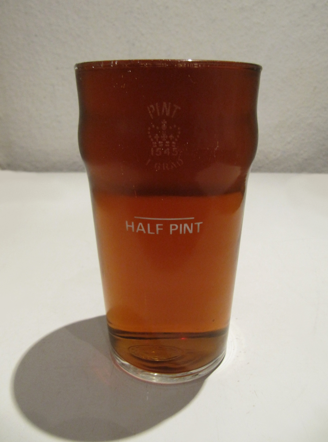 A full pint glass with half-pint markings.